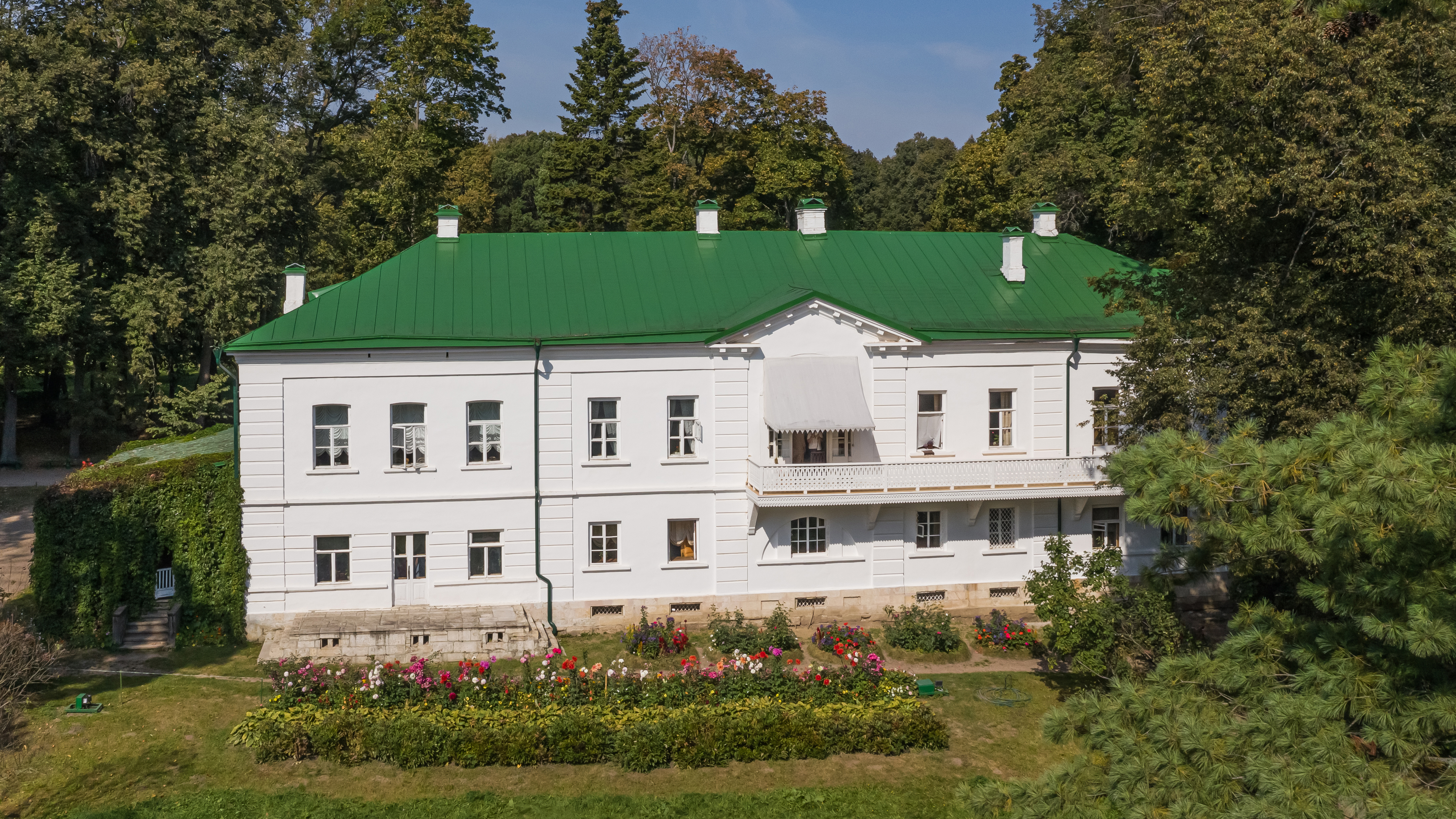 Aerial view of Leo Tolstoy's House in Yasnaya Polyana estate near Tula, Russia